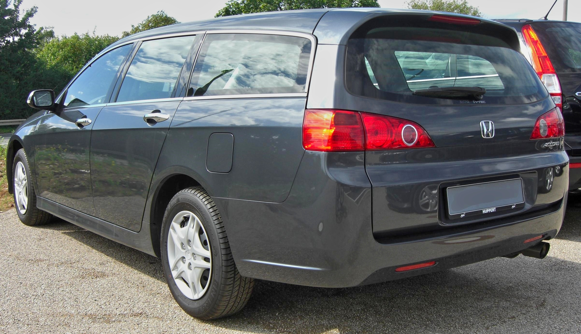 Honda Accord Tourer